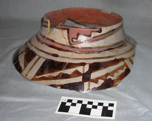 Jar neck and shoulder of Puaray Glaze Polychrome. Note shininess and brown cast of glaze paint.